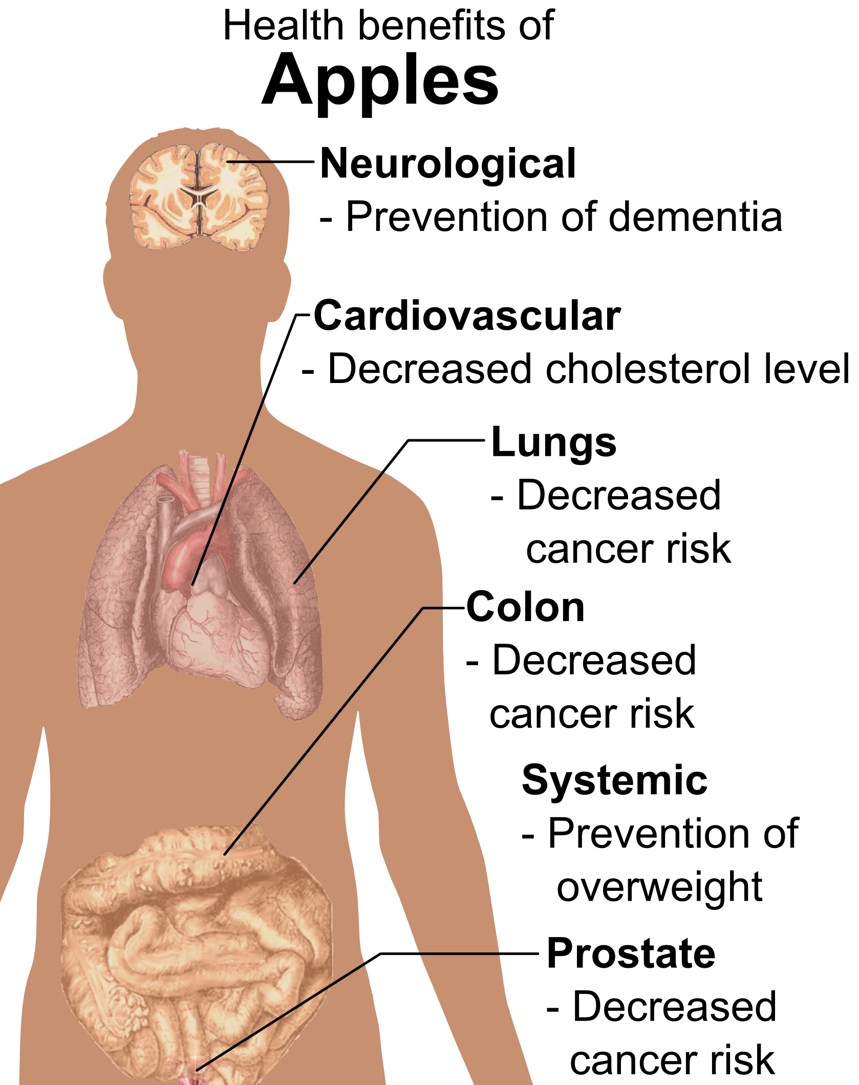 Health benefit of apples. To discuss image, please see Template talk:Human body diagrams References For decreased risk of colon, prostate and lung cancer: Nutrition to Reduce Cancer Risk. The Stanford Cancer Center (SCC). Retrieved on 2008-08-18. For weight loss and cholesterol control: Apples Keep Your Family Healthy. Washington State Apple Advertising Commission. Retrieved on 22 January 2008. Rajeev Sharma. (2005) Improve your health with Apple,Guava,Mango, Diamond Pocket Books (P) Ltd., pp. 22 ISBN: 8128809245. For prevention of dementia: Chan A, Graves V, Shea TB (2006). "Apple juice concentrate maintains acetylcholine levels following dietary compromise". Journal of Alzheimer's Disease 9 (3): 287–291. PMID 16914839.